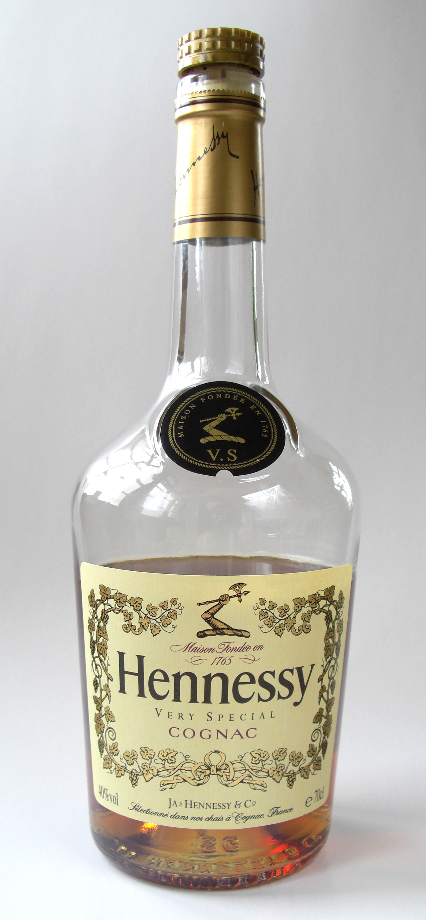 A bottle of Hennessy Cognac 'Very Special'